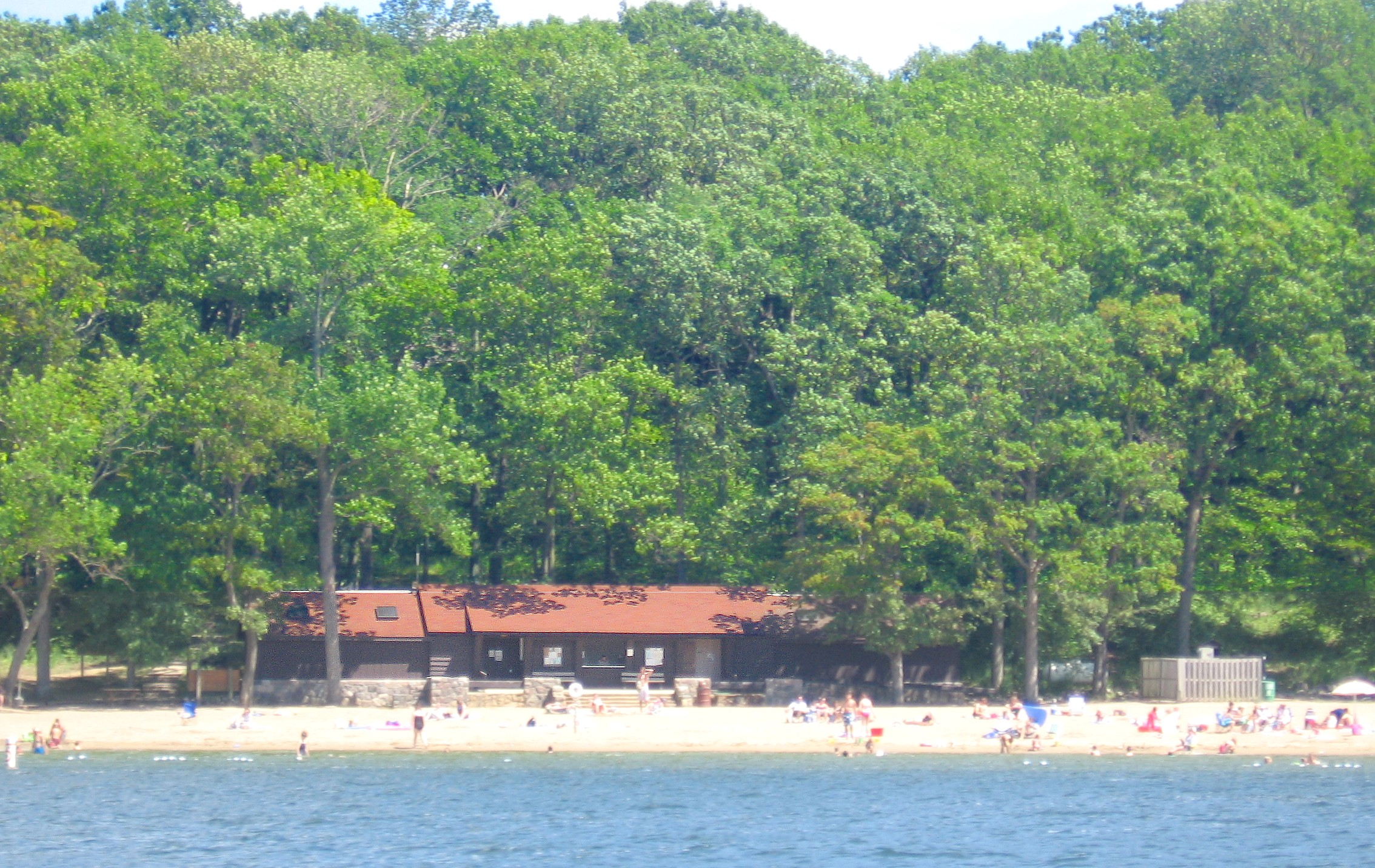 The Beach House on Lake James, at the western edge of Pokagon State Park, Indiana.